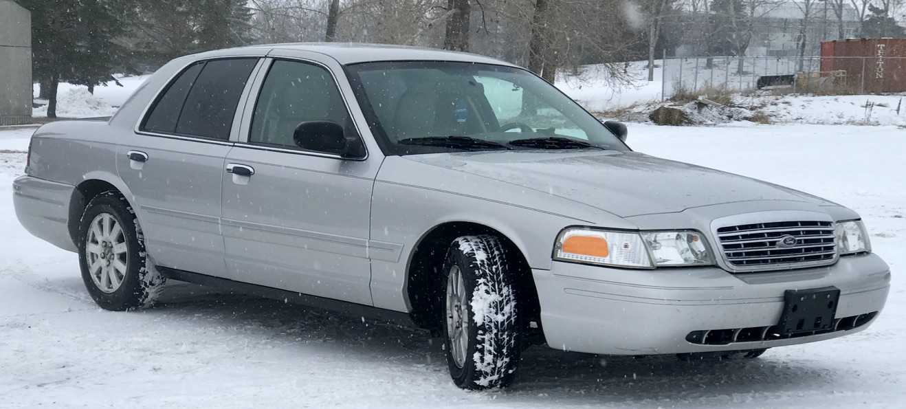 1998-2011 Ford Crown Victoria, 2006 Crown Victoria LX Model Shown